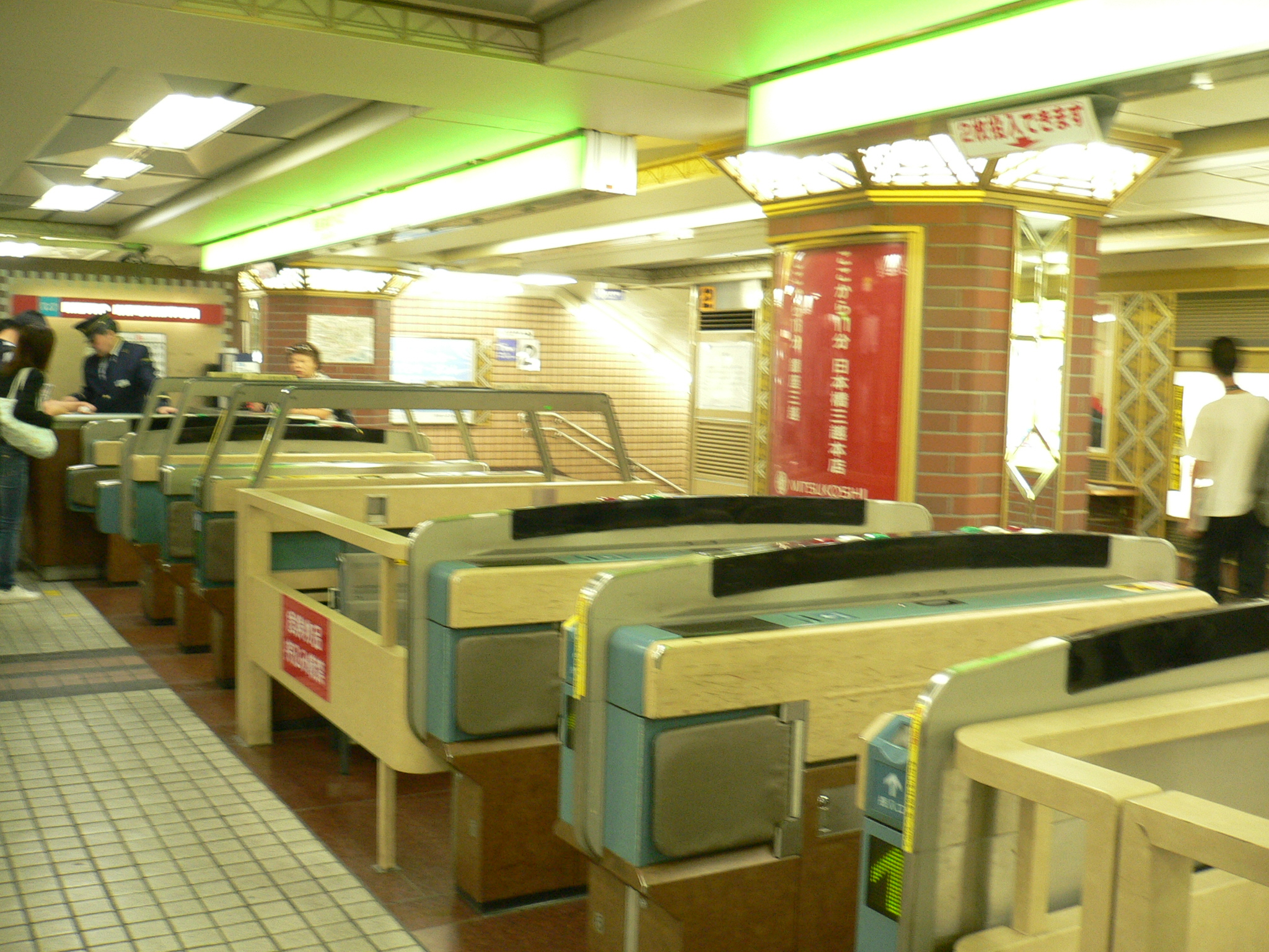 Asakusa Station(浅草駅) in Taito W, Tokyo M.